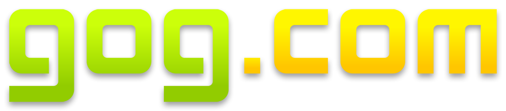 Logo of